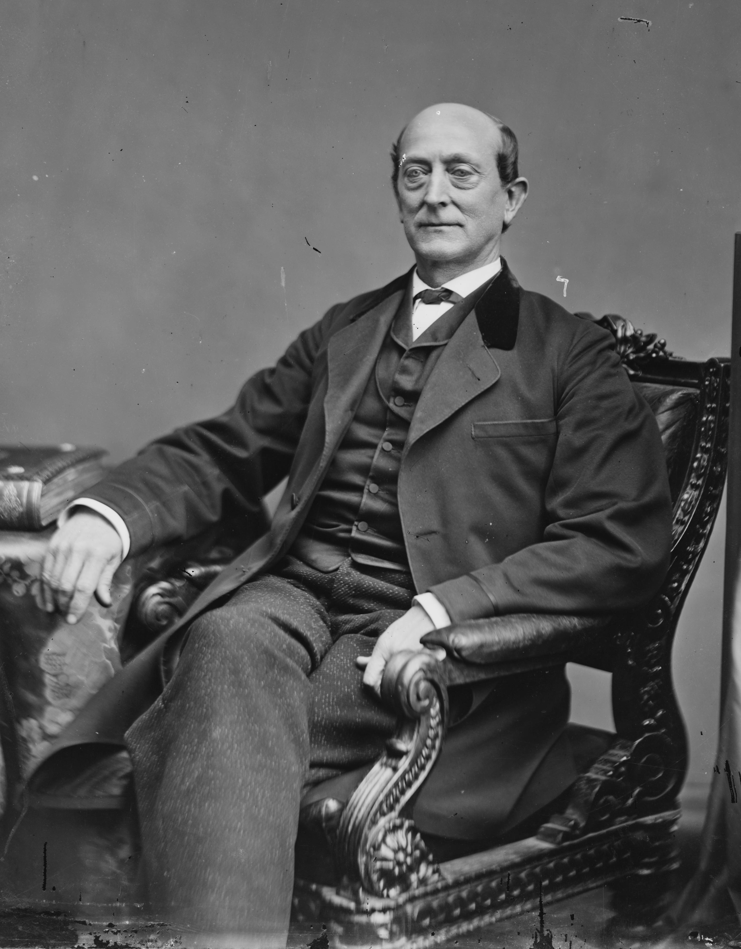 William Brickly Stokes. Library of Congress description: "Hon. Stokes of TN[?]" (identification based on